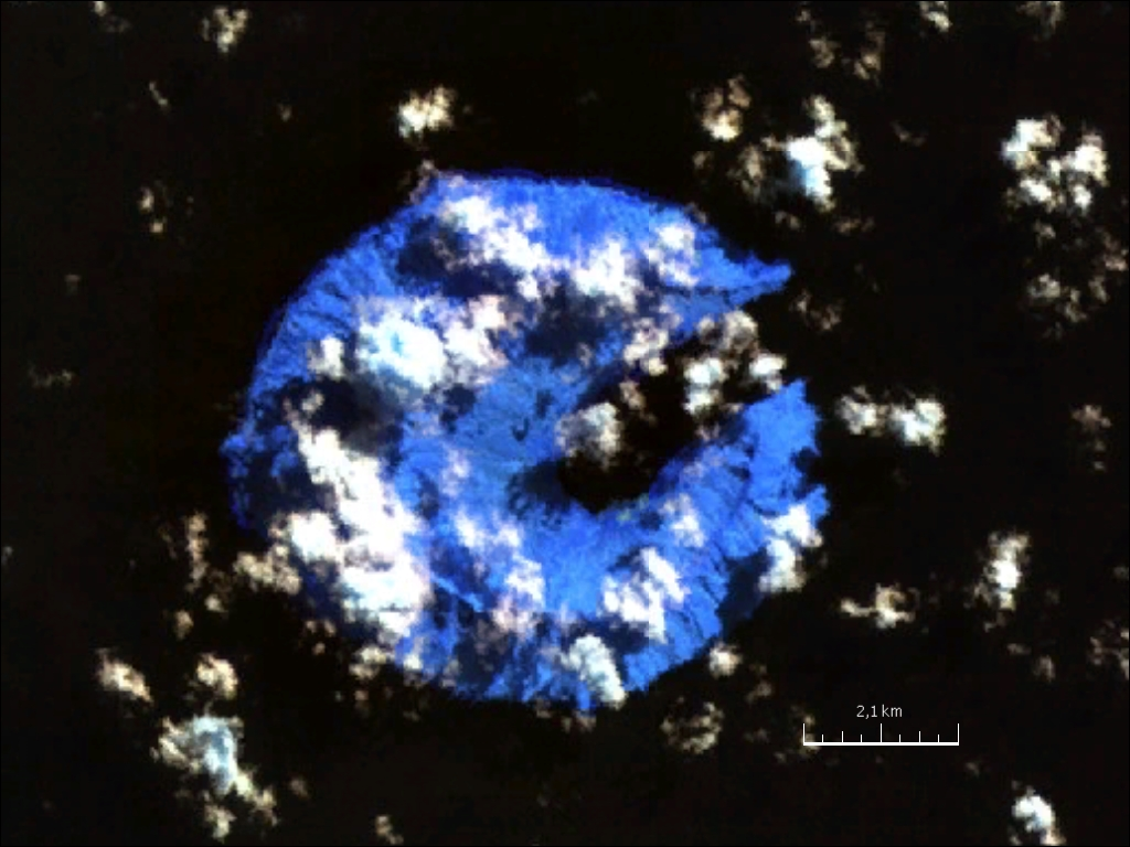 False color satellite image of Ureparapara Island, Banks Islands, Vanuatu, Central Pacific Ocean